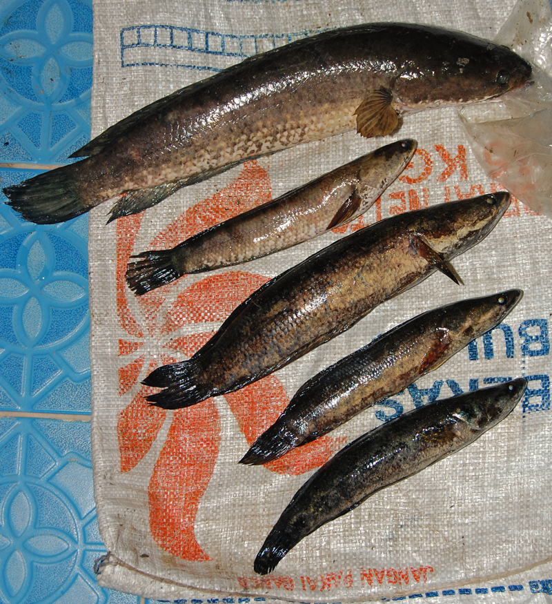 Comparison of Channa striata (the upper two) and C. lucius (the lower three specimens). The biggest C. lucius is 330mm TL (total length). From Mentaya Hulu, Central Kalimantan, Indonesia.